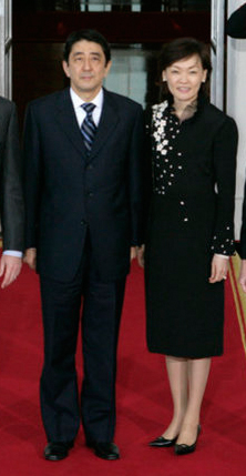 Japanese Prime Minister Shinzo Abe and his wife Mrs. Akie Abe arrive at the White House.